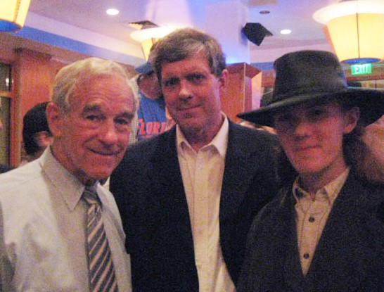 Date: 2007 Description: Ron Paul, Don Black, Derek Black in New River, Ft. Lauderdale Photo by Jamie Kelso